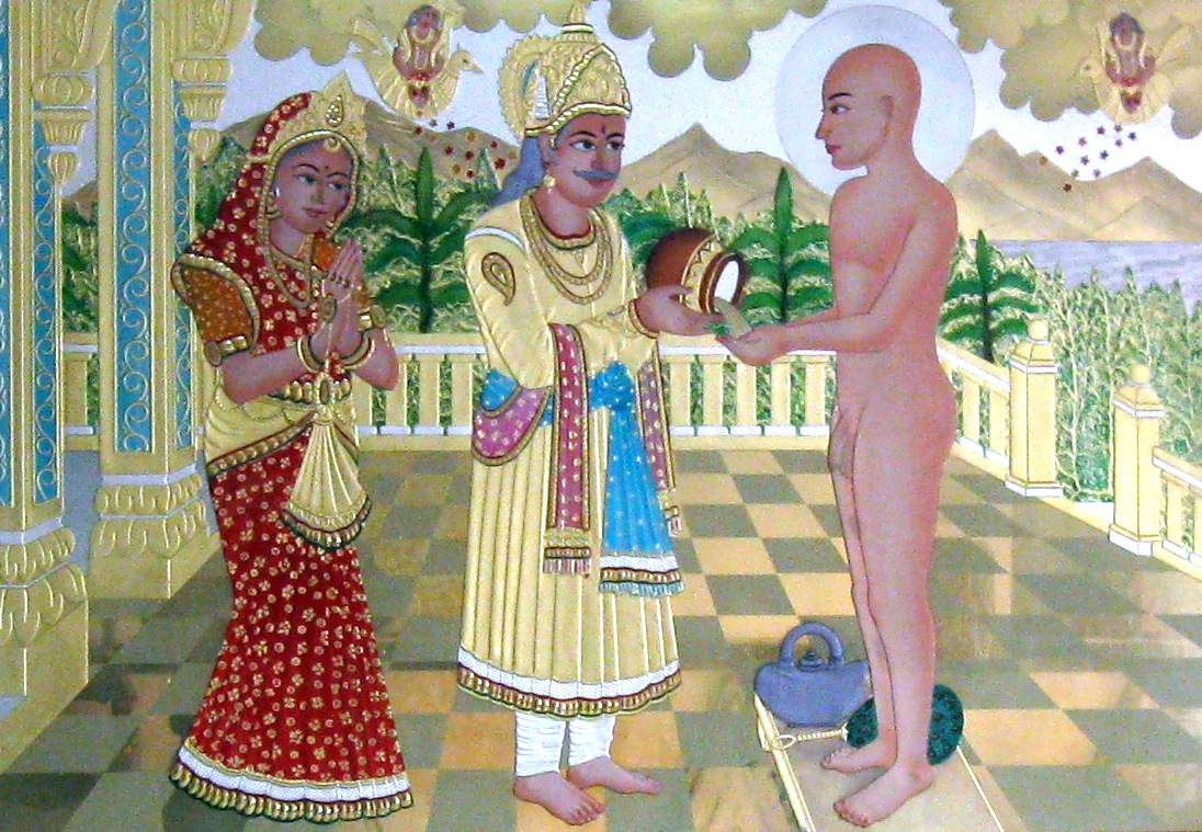 This is Plate from temple shows Mahavira acception alms from Lay Jain householder.